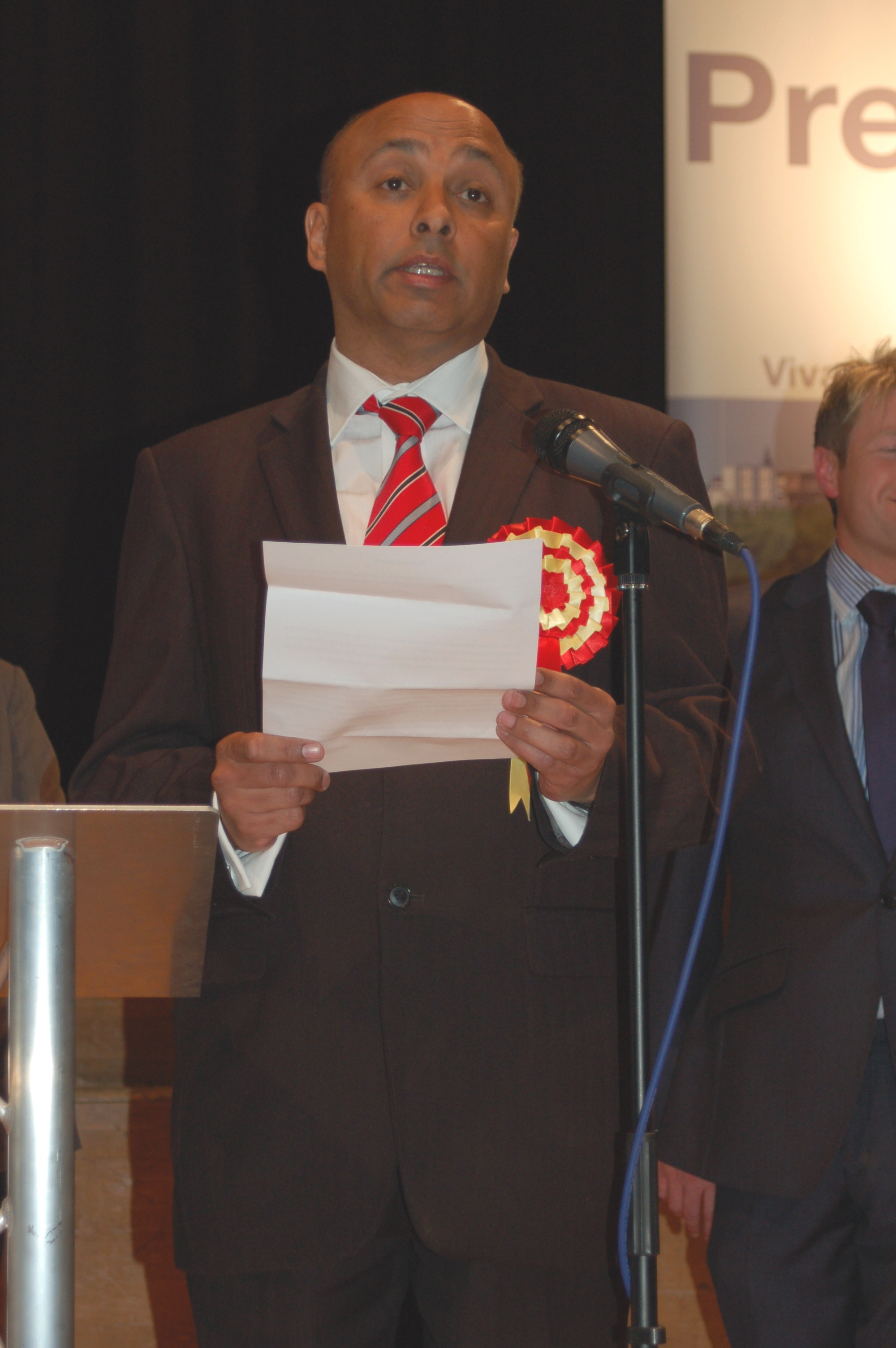 Mark Hendrick's acceptance speech.